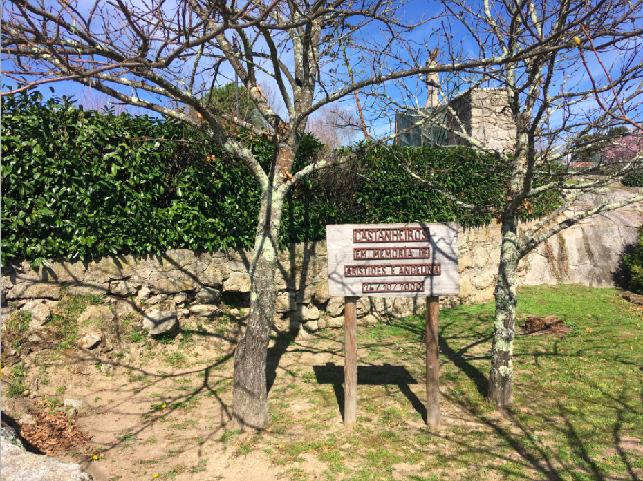 A tribute to Aristides de Sousa Mendes in his home town of Cabanas de Viriato, Portugal